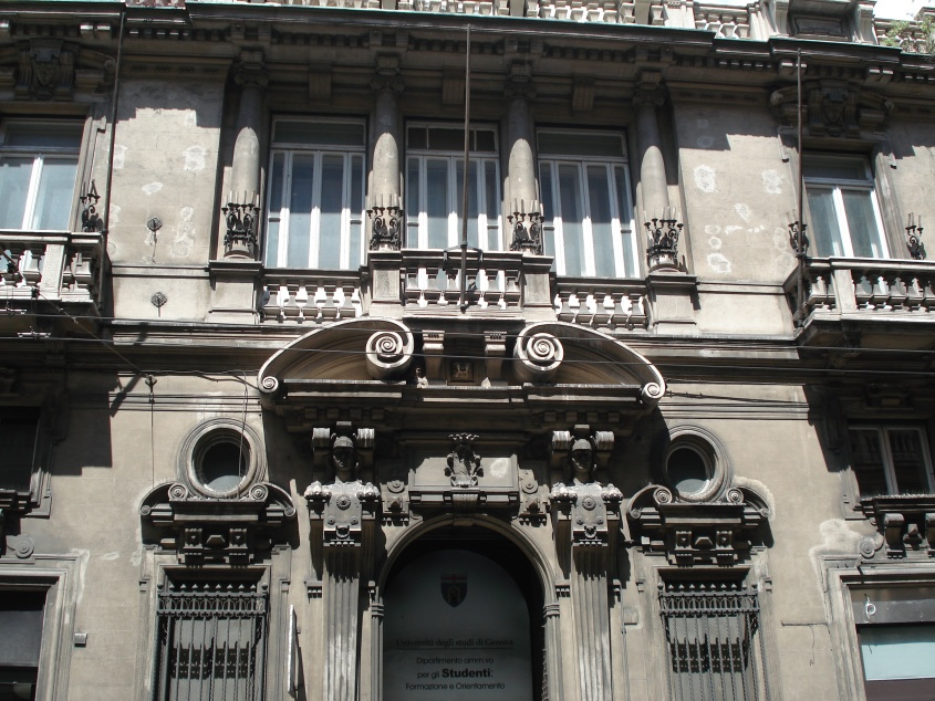 Filippo Lomellini Palace in Genova